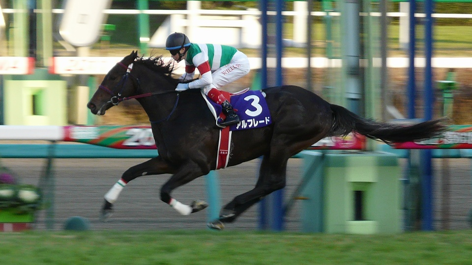 Alfredo(horse)20111218(1)